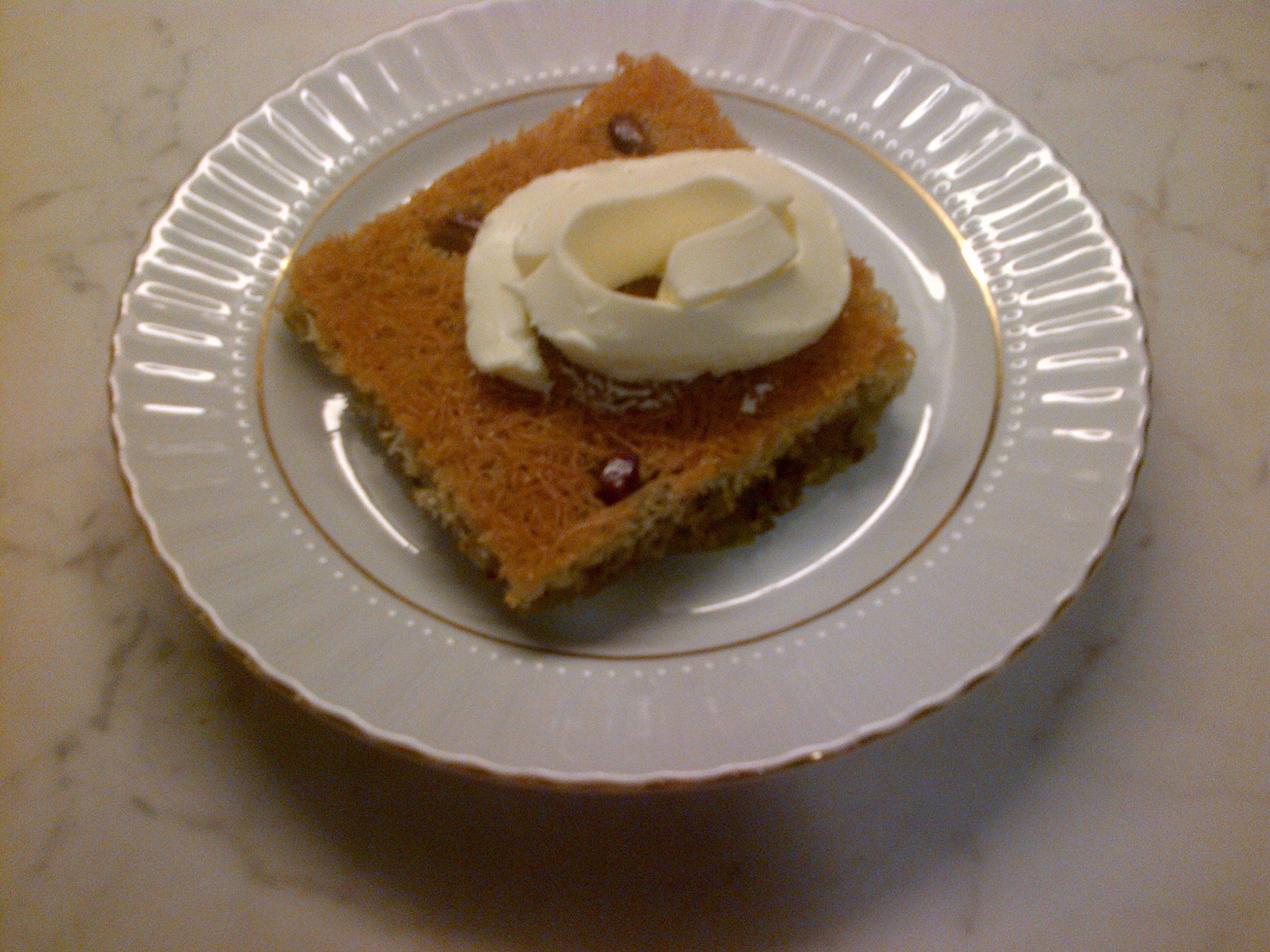 "Tel kadayıf" with pistachios, from the Turkish cuisine; on top some "kaymak".